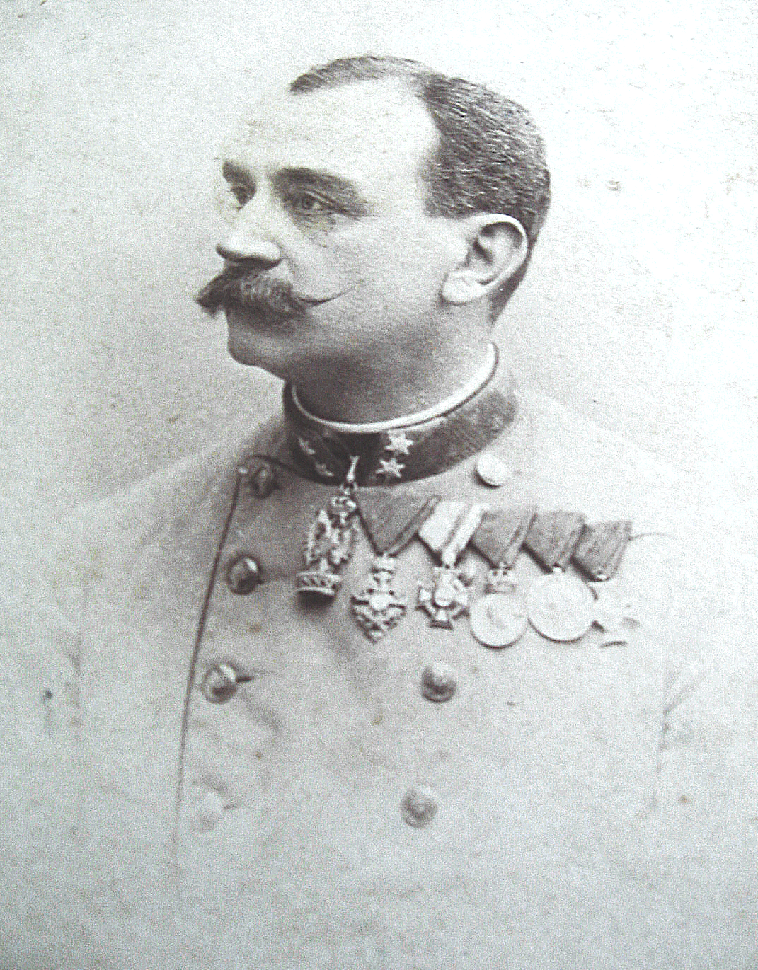 Emanuel von Merta, 1885